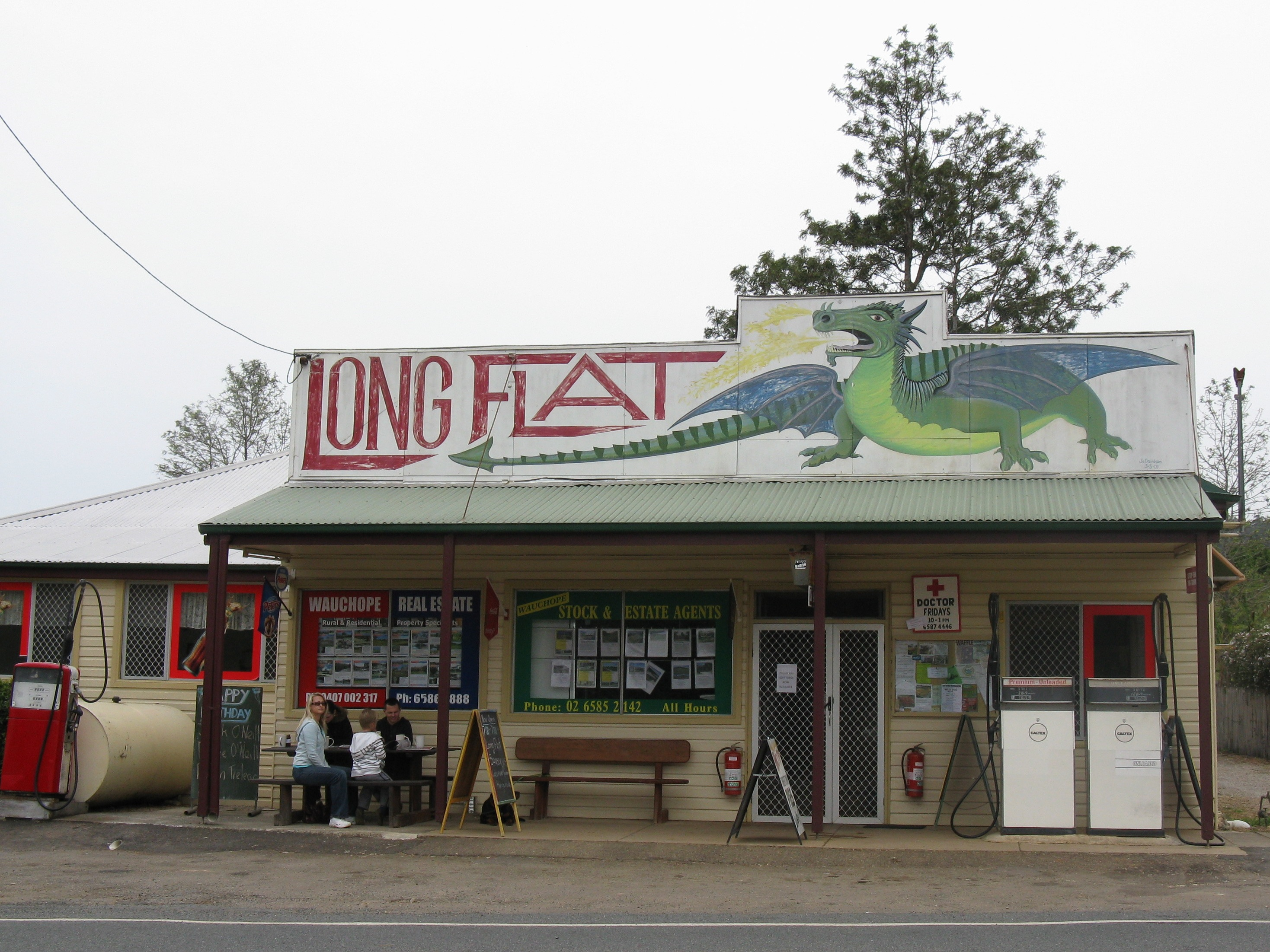 Shopfront of General store at Long Flat, New South Wales